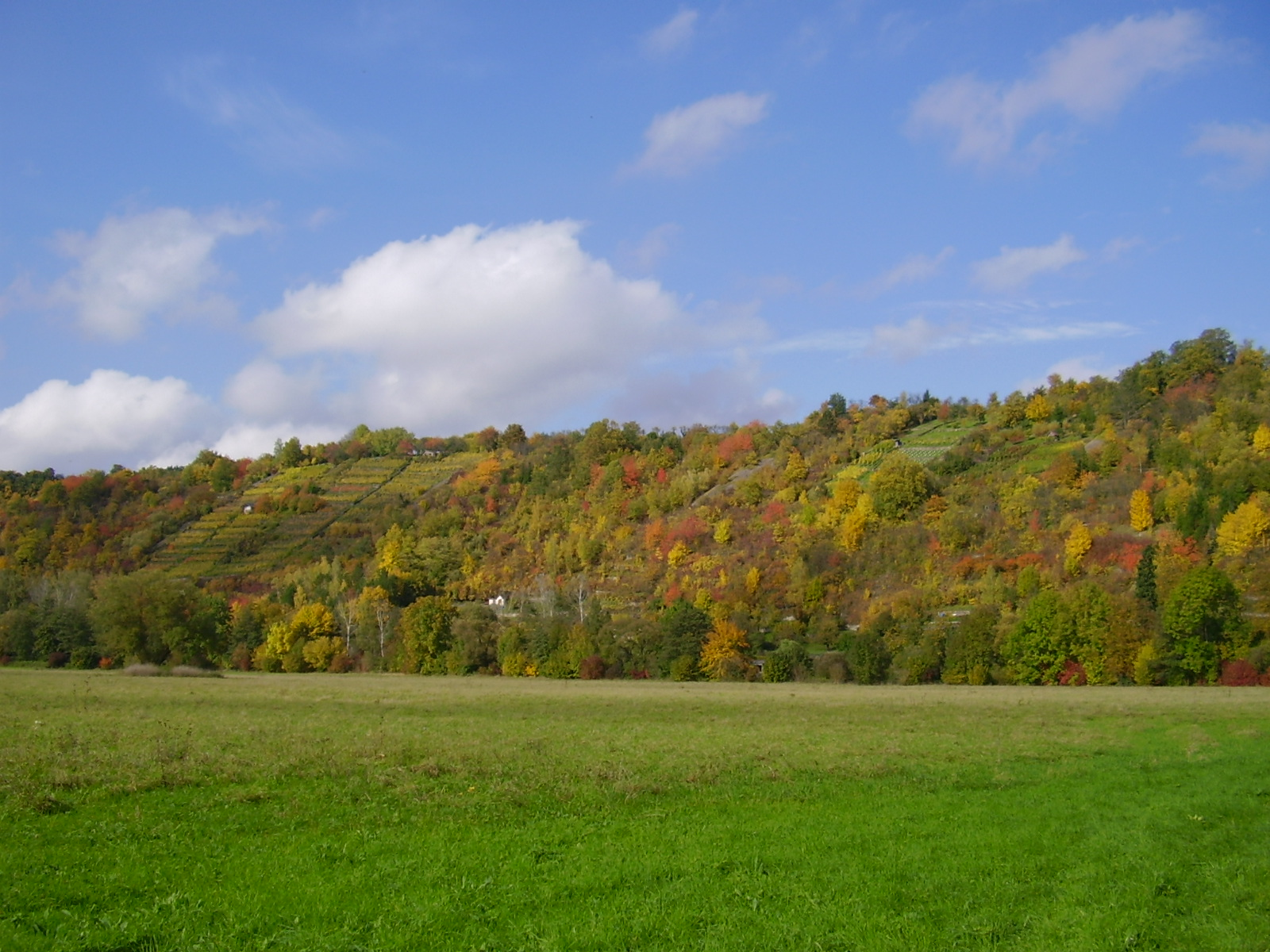 River bank of the Jagst, historically with vineyards only - now running wild.